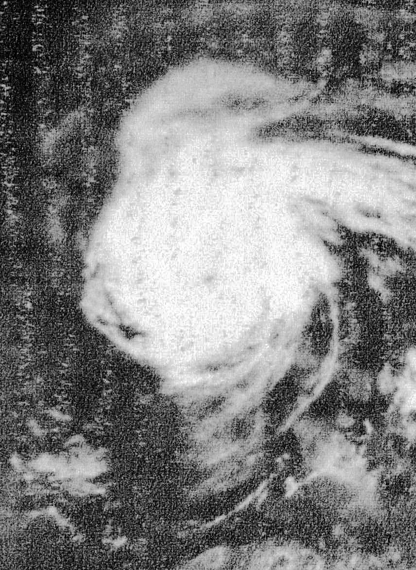 Hurricane Abby as seen by a TIROS satellite on June 6, 1968.